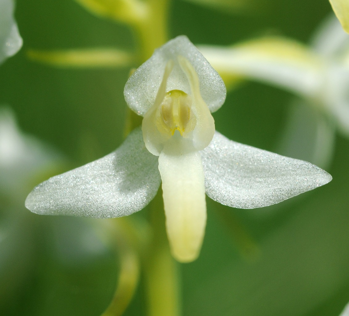 Platanthera bifolia, closeup of single flower. Tågdalen, Surnadal, Norway.